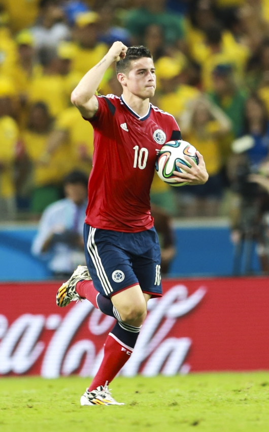 Brazil and Colombia match at the FIFA World Cup 2014-07-04